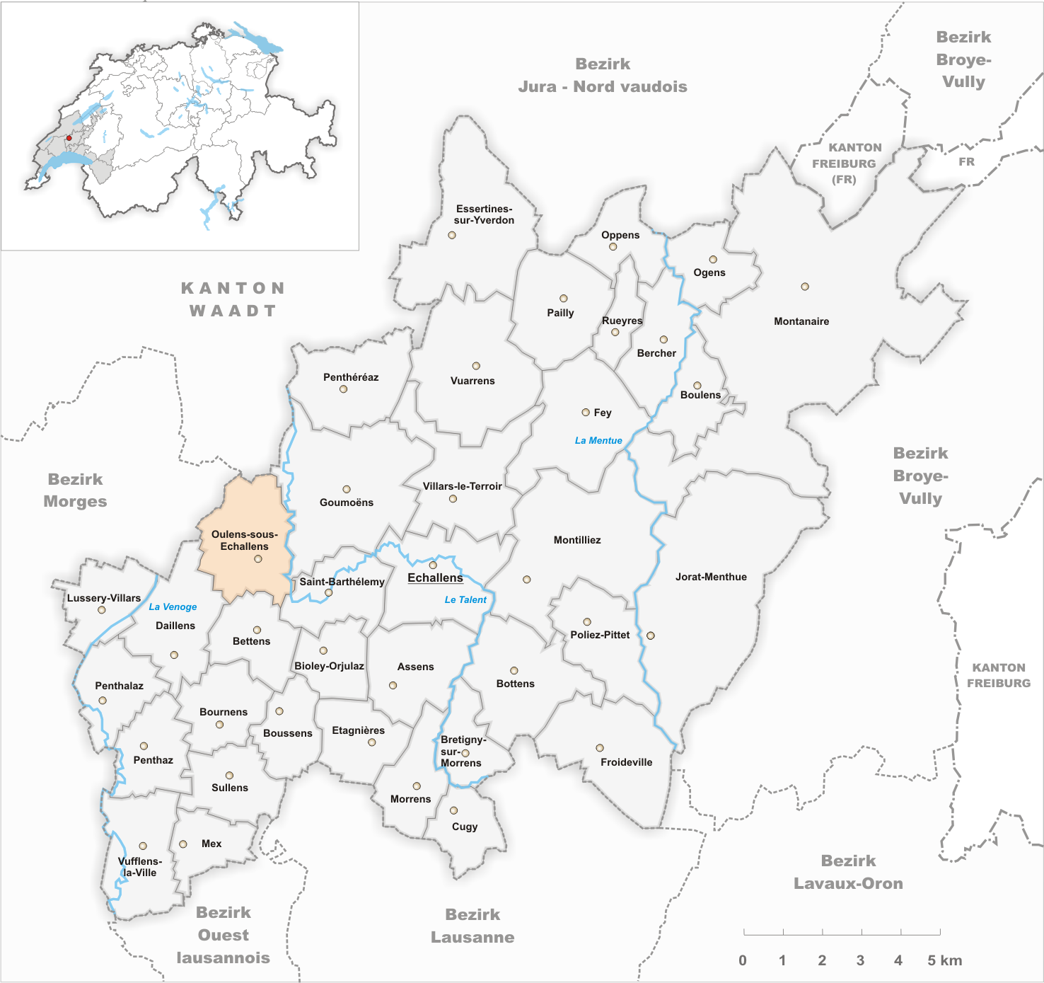 Municipality Oulens-sous-Echallens